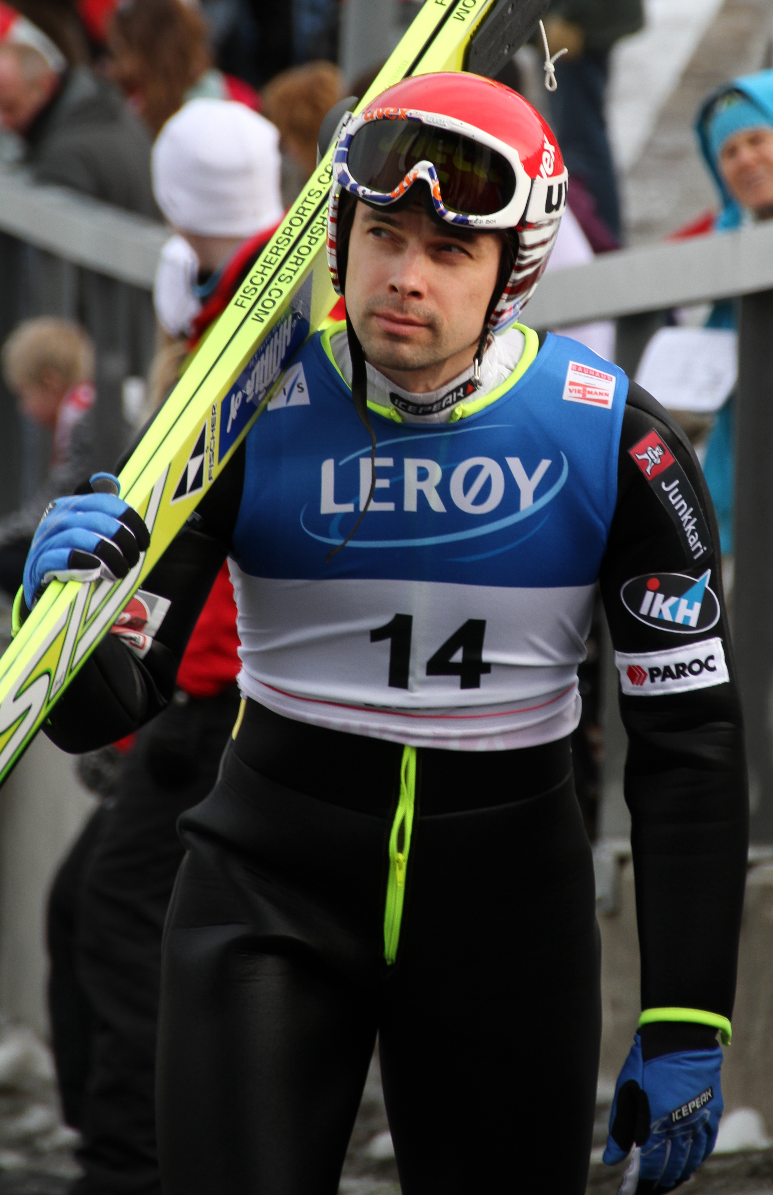 Holmenkollen, Oslo. FIS World Cup Ski Jumping, first round. March 11, 2012. This was the third last WC tournament of the season.